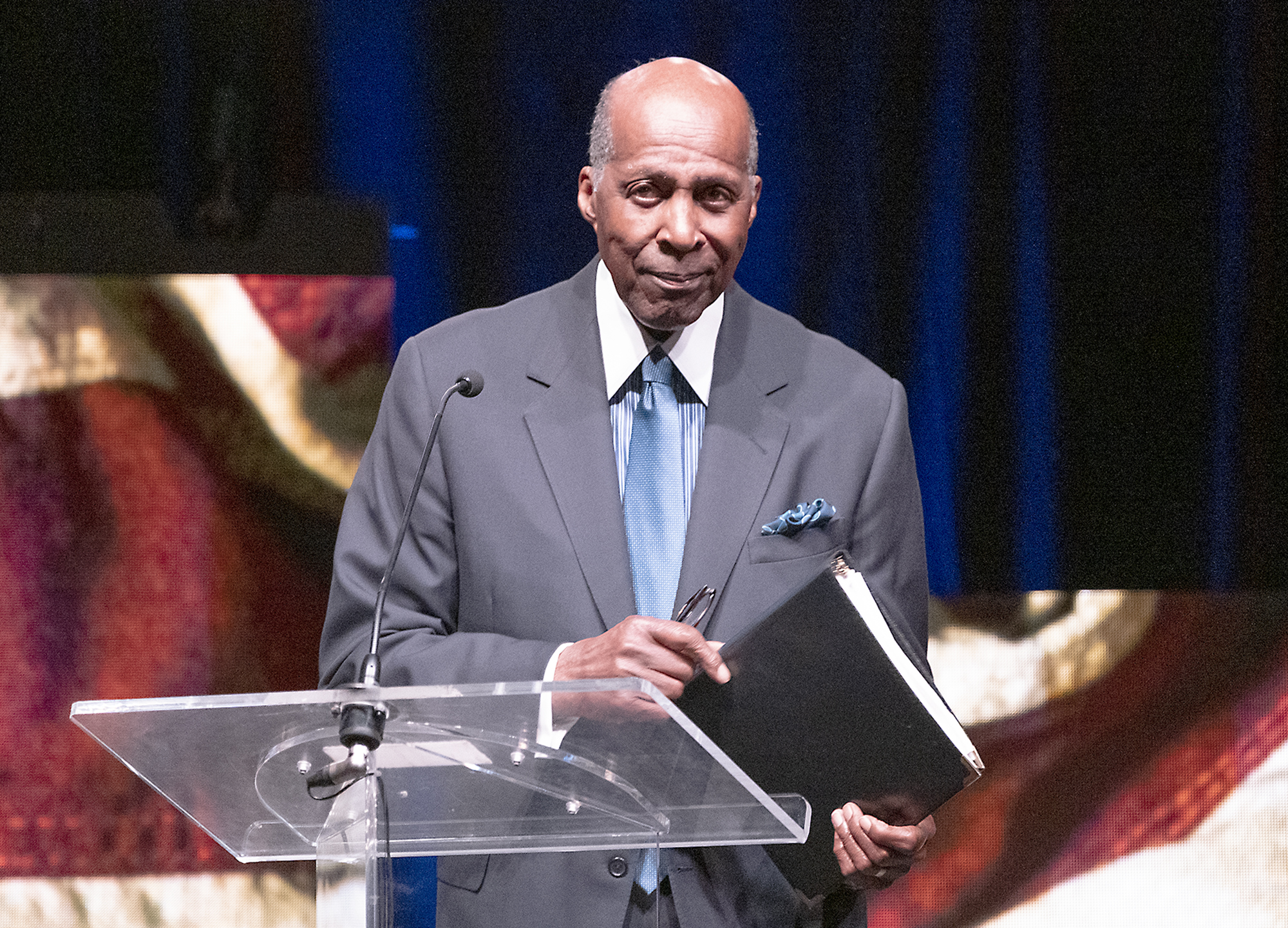 Civil rights activist and businessman Vernon E. Jordan Jr. addresses The Summit on Race in America at the LBJ Presidential Library on Wednesday, April 10, 2019. Jordan, a lawyer and political adviser, discusses how far the United States has come in diversifying corporate America—and how far there is to go.